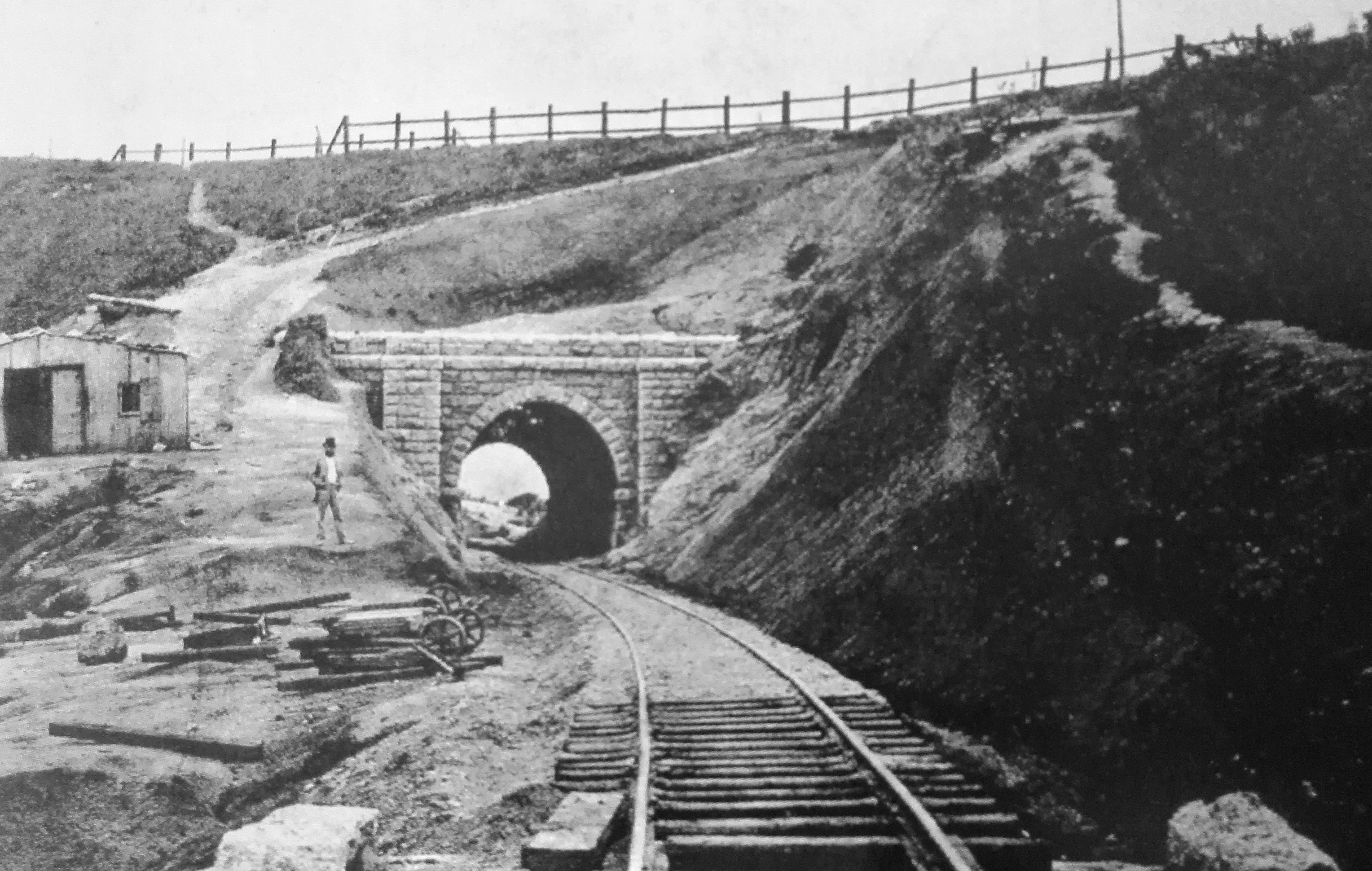 Drummon Tunnel, 52 m long